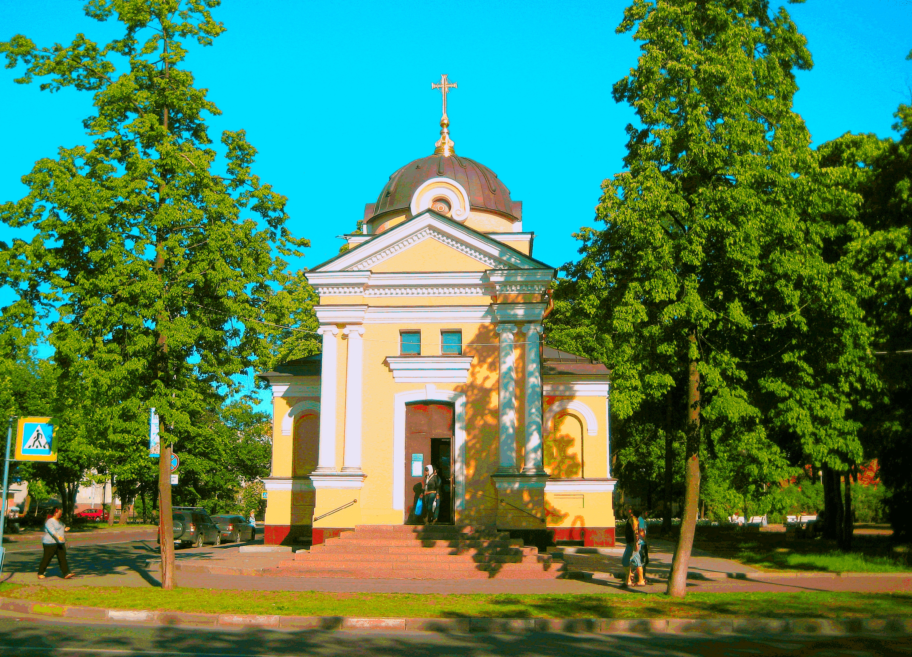 Tikhvin Chapel, 2008-2009: Cathedral Square, 1. Kronstadt. Kronstadt district, St. Petersburg.